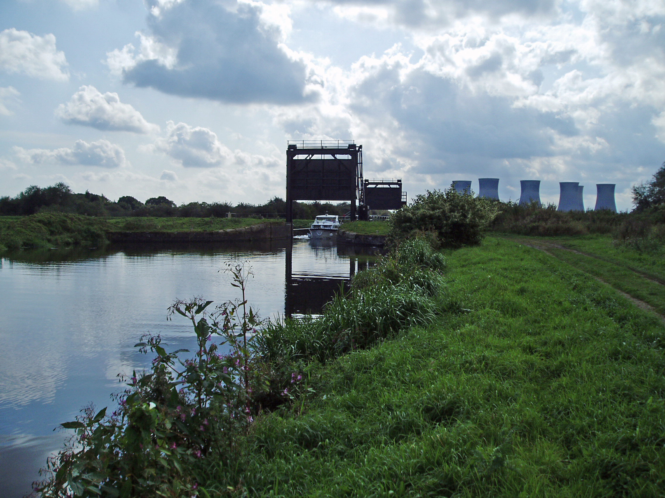 The guillotine gates on the aqueduct carrying the New Junction Canal over the River Don